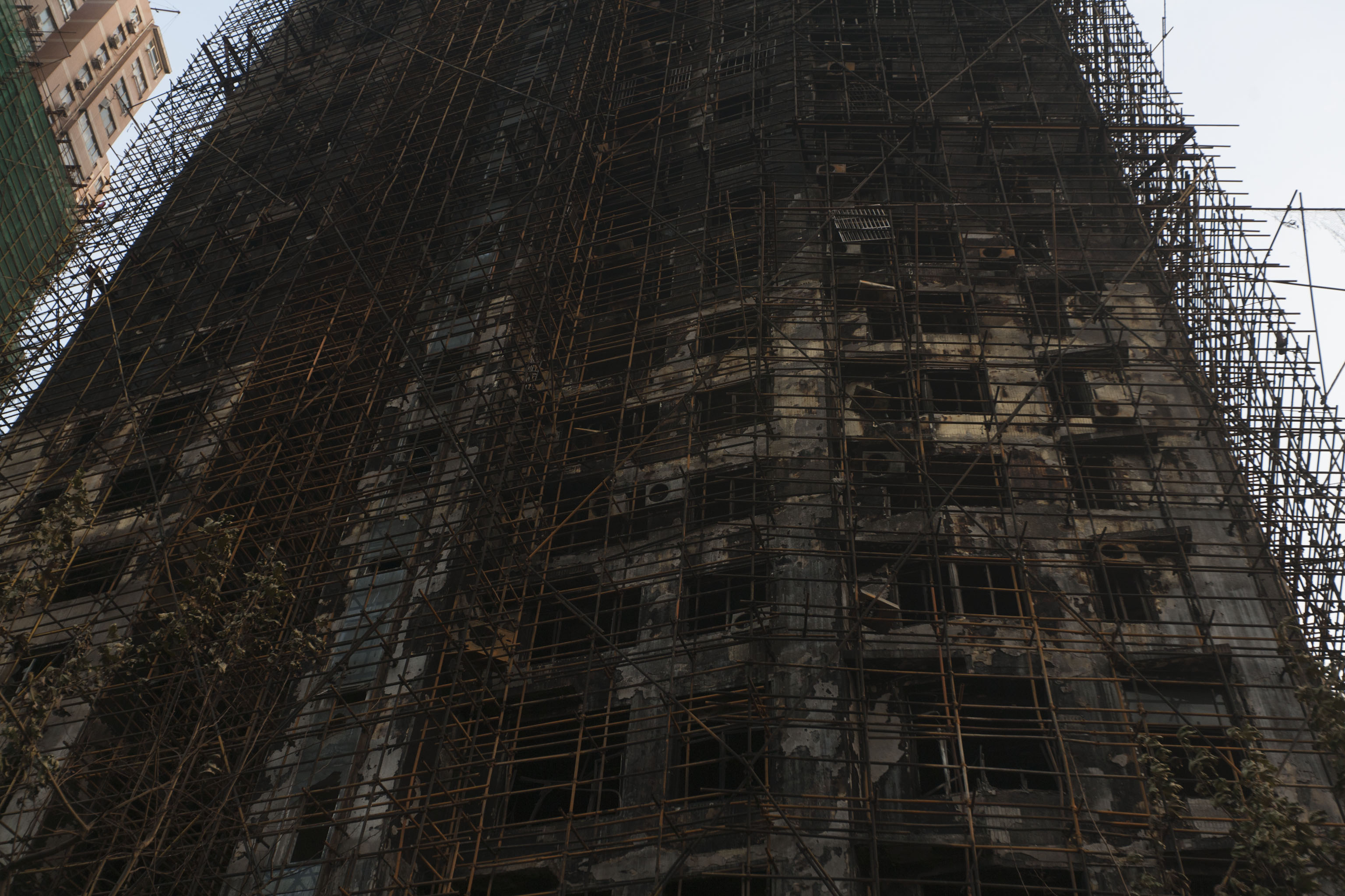 Building after 2010 Shanghai fire